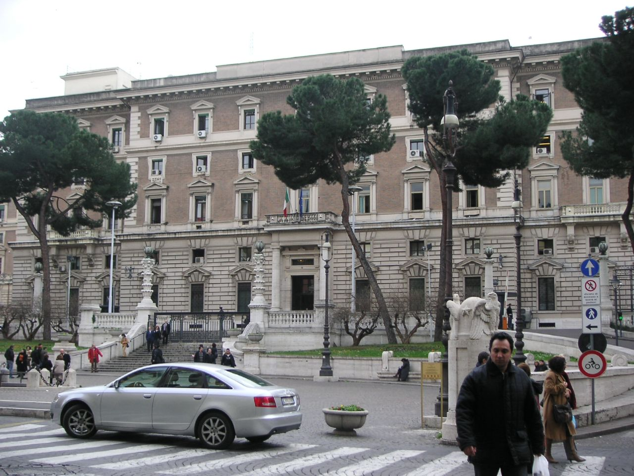 Italian Ministry of Interior - seen from Viminale square.